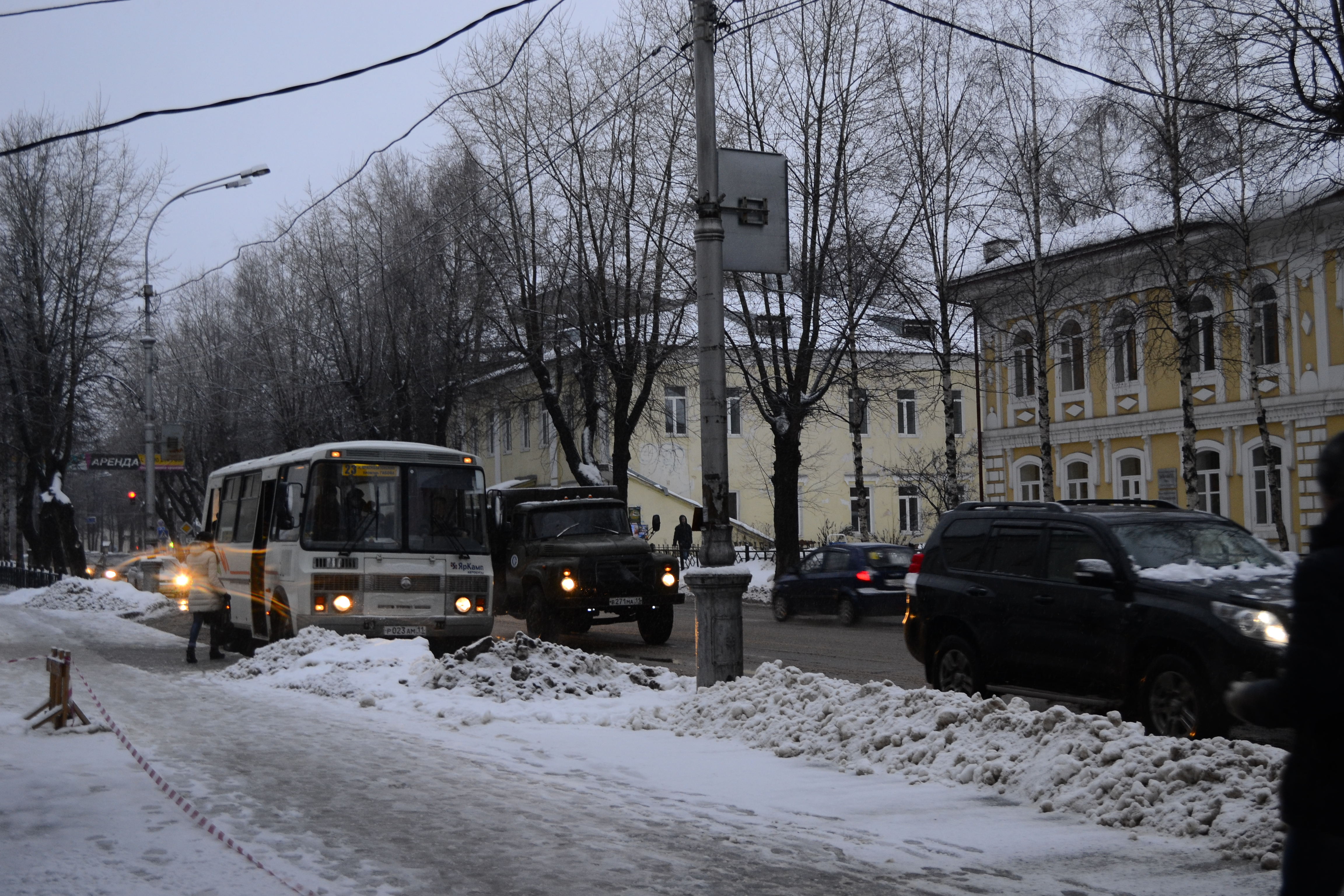 PAZ-3205 bus in Syktyvkar.